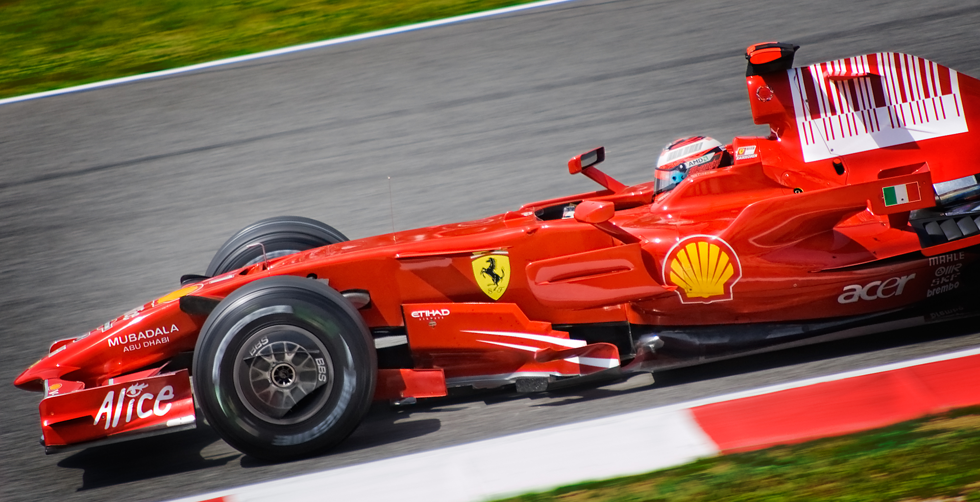 Kimi Räikkönen driving for Ferrari at the 2008 Spanish Grand Prix, a race he won. You can contribute by translating this description into more languages.